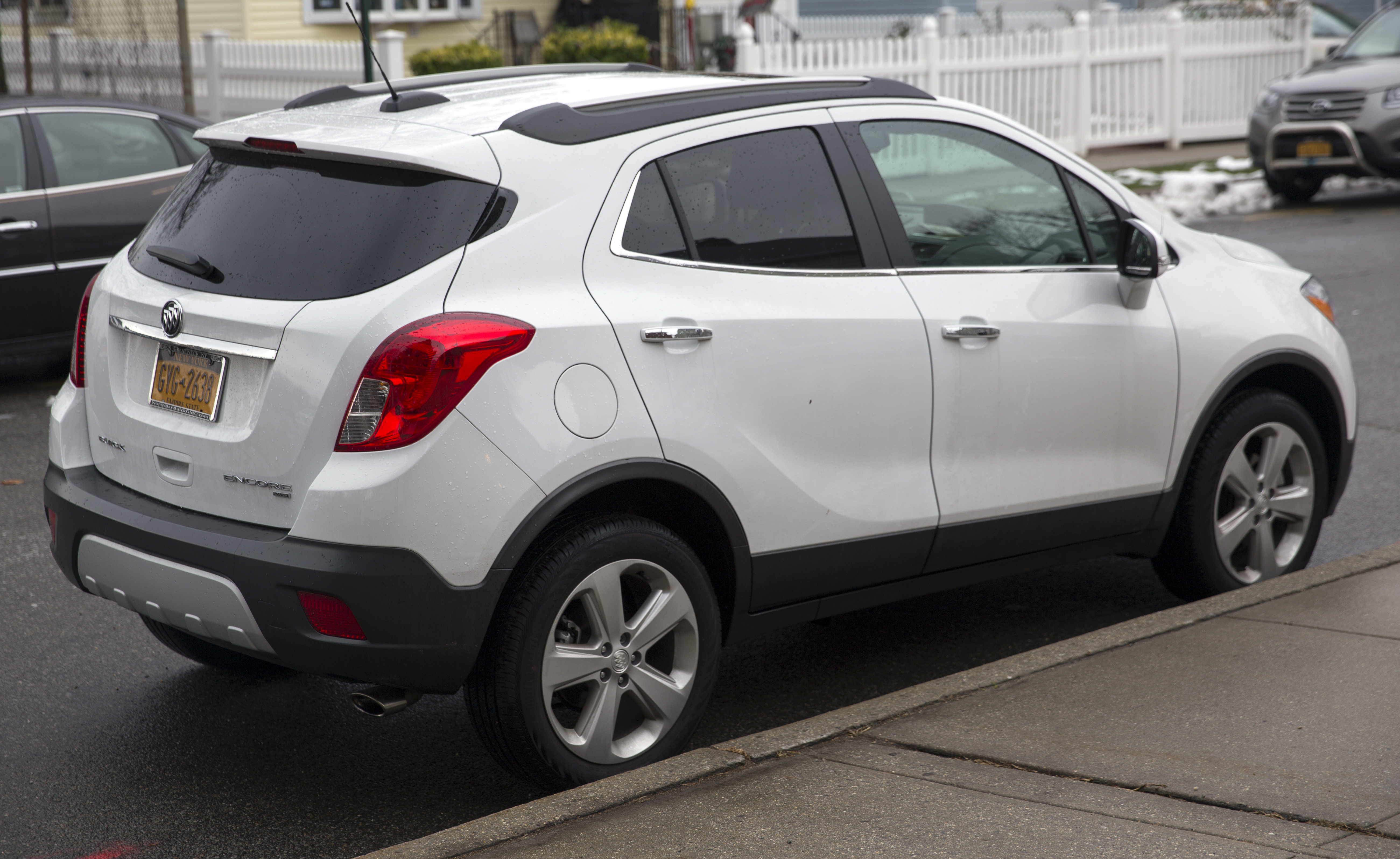 A 2016 Buick Encore Convenience. 1.4 Turbo, 6-speed Auto, AWD. Summit White with Ebony interior.